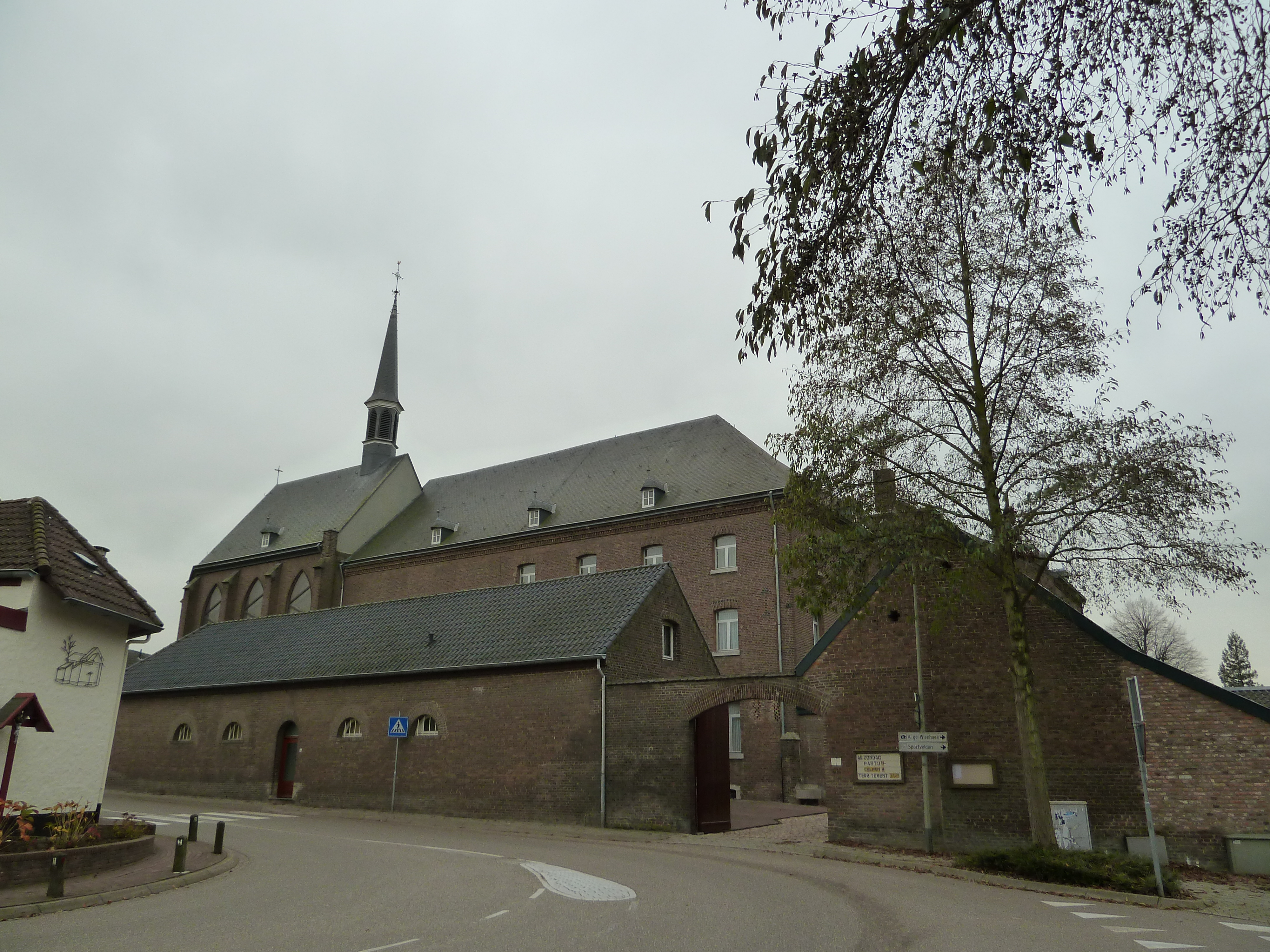 Partijerweg 6, Partij, Limburg, the Netherlands